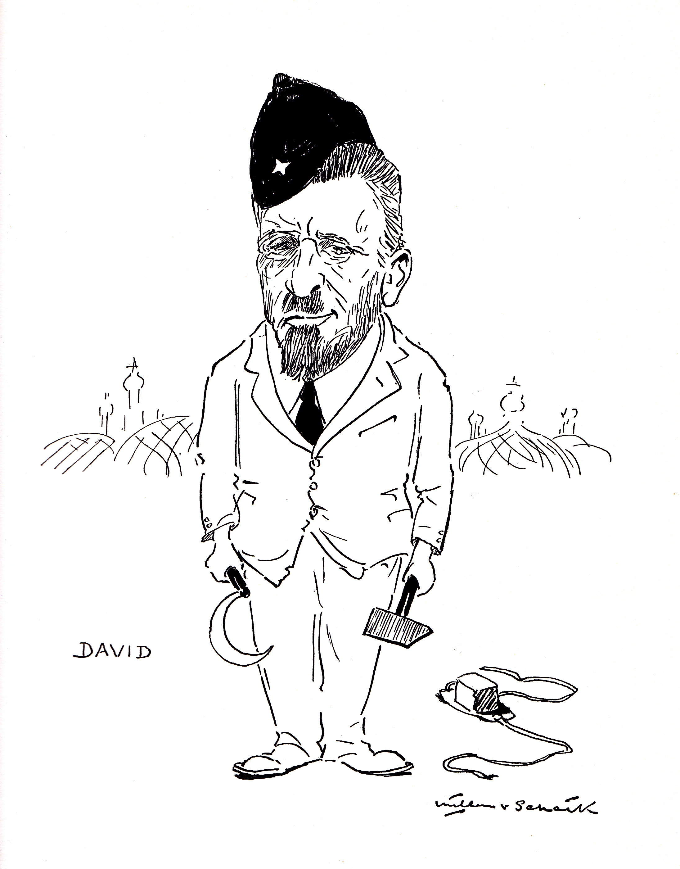 David Wijnkoop. Sketch drawn by Willem van Schaik (1876-1938)